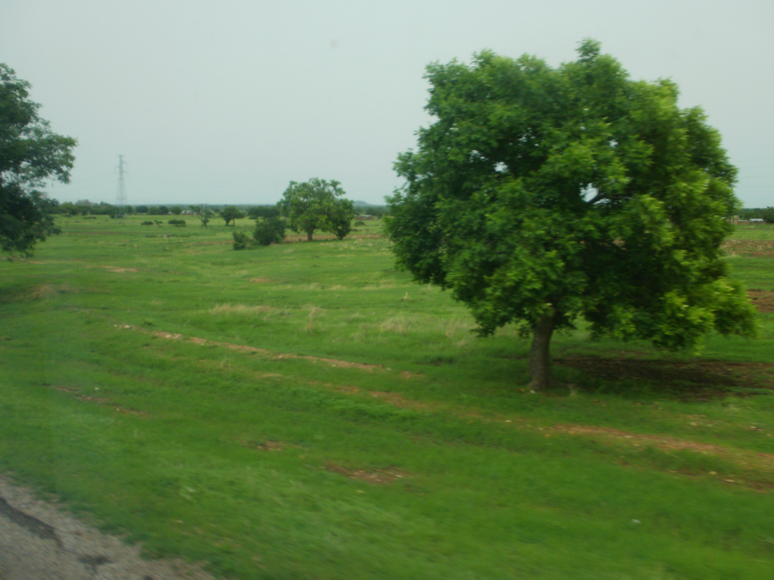 Shea nut trees grow naturally in the savana regions